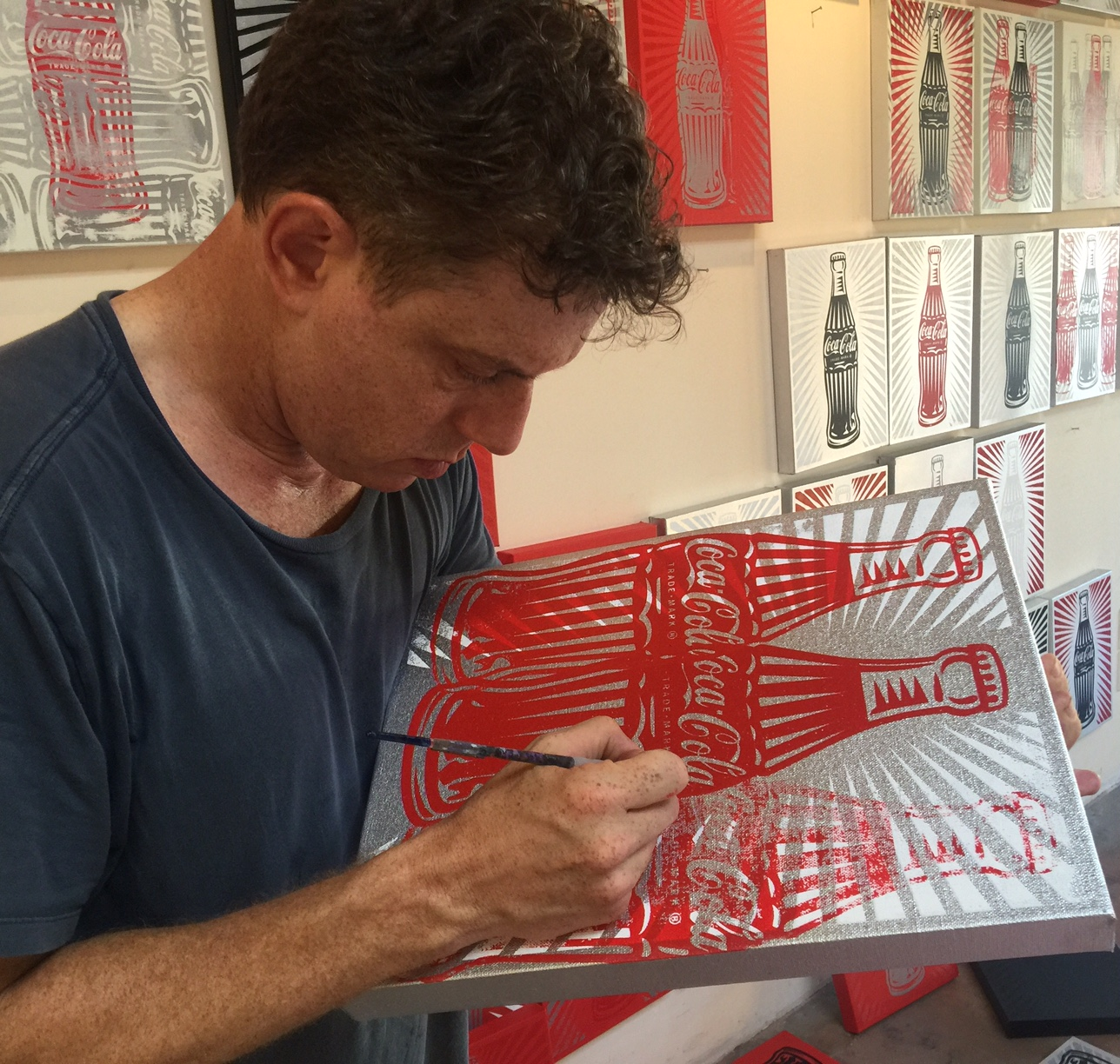 Burton Morris touching up a Coca-Cola painting